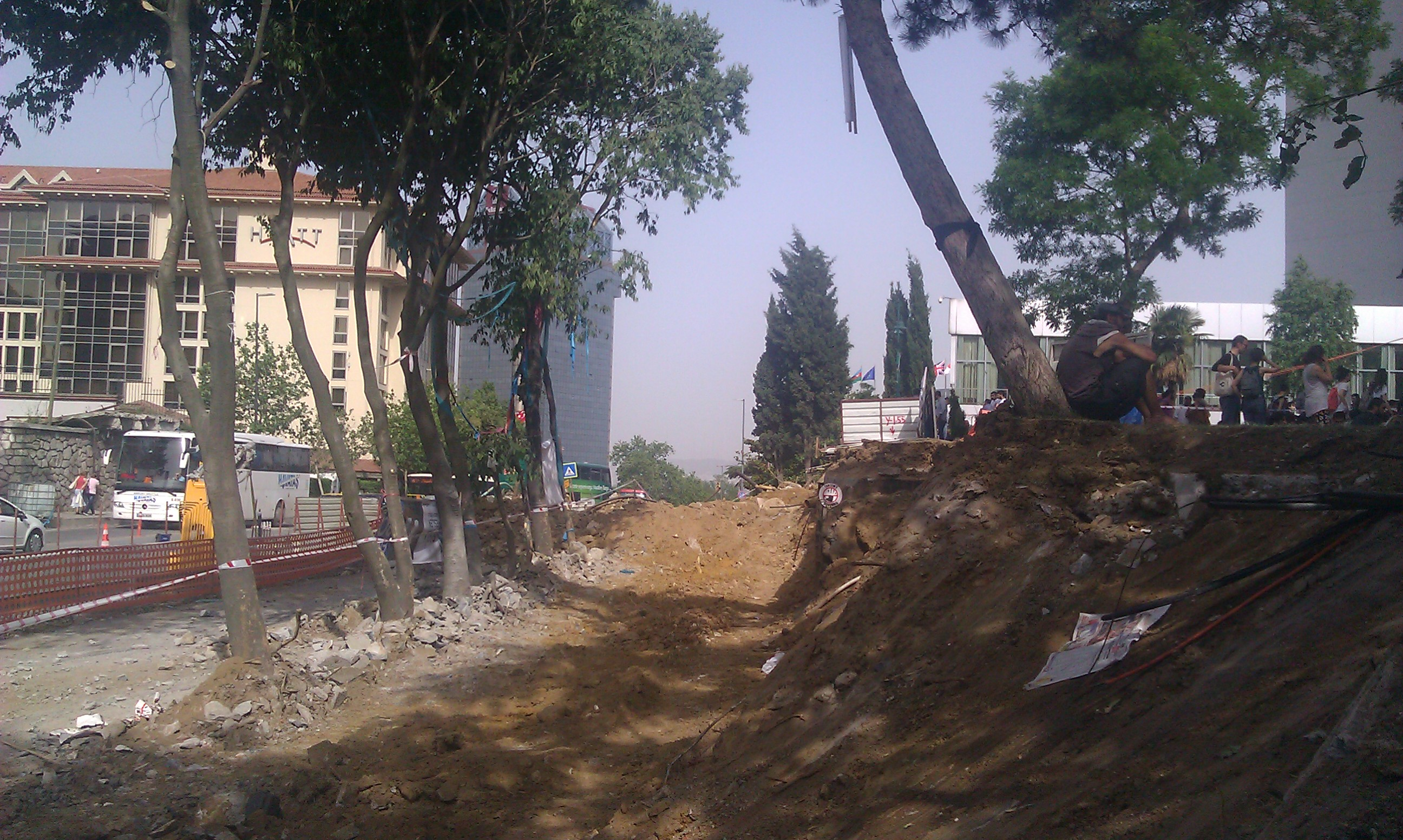 Taksim park northern end, 30 may 2013 17:56, initial construction (digging), reason for the 2013 protests in Turkey